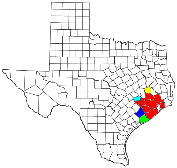 Locator map of the Houston-The Woodlands Combined Statistical Area in the southeastern part of the U.S. state of Texas. The five components of the CSA are colored separately: Houston-The Woodlands-Sugar Land Metropolitan Statistical Area: red Huntsville Micropolitan Statistical Area: yellow El Campo Micropolitan Statistical Area: blue Bay City Micropolitan Statistical Area: light green Brenham Micropolitan Statistical Area: light blue